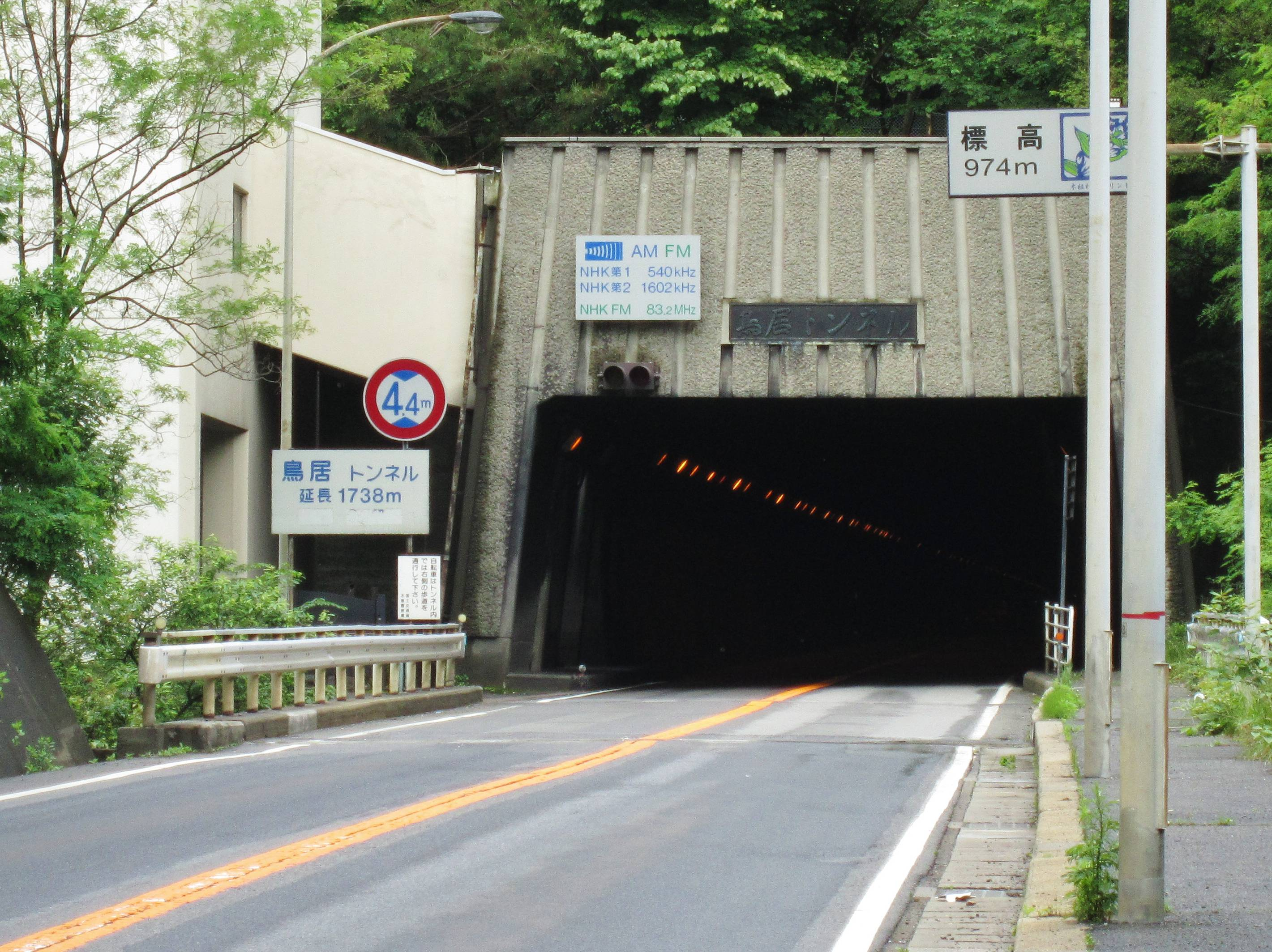 Trii Tunnel.